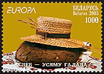 Stamp of Belarus